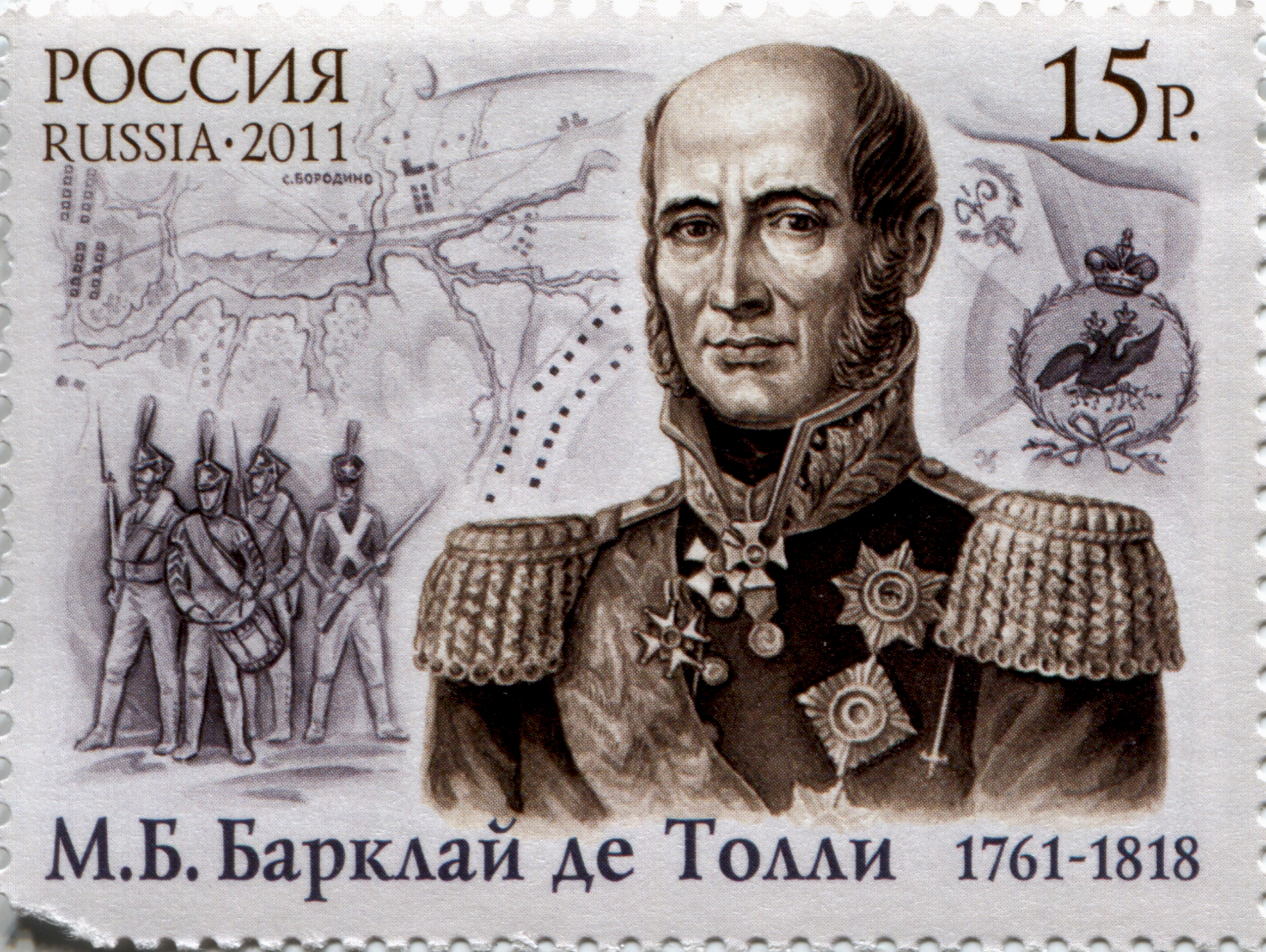 250 years from the birthday of Michael Andreas Barclay de Tolly (1761-1818). The stamp of Russia, 15 Rubles, 2011, PTC Marka Catalogue 1511.